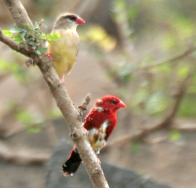 Red Munia, Red Avadavat or Strawberry Finch Amandava amandava- Hindi: Laal munia, Guj: Surakh, Laal muniya , Laal tapu shiyu, Mar: Laal munia, Pun: Laal munia, Surkhan, Te: Torra-jinuwayi, Yerra jinuwayi, Mal: Chuvanna moonia, Kan: Kempu munia- at Pocharam lake, Andhra Pradesh, India.